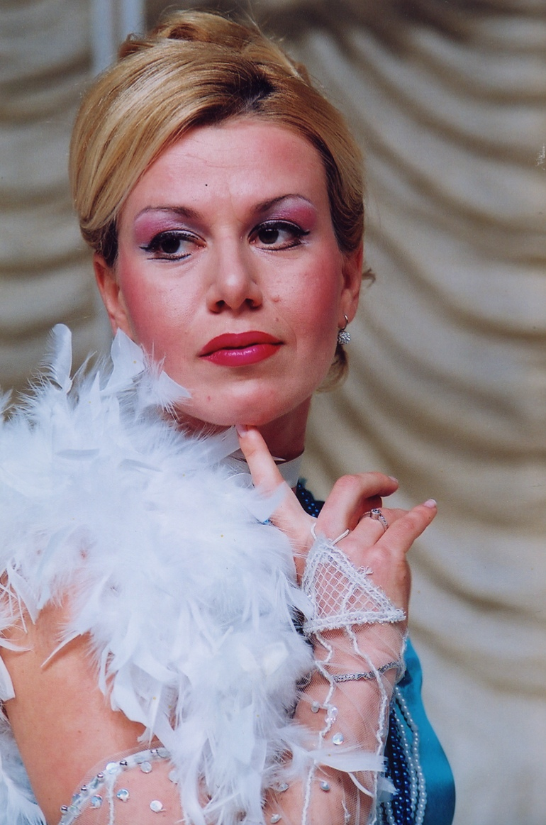 Darija Olajoš Čizmić, Soprano, Principal Singer of the Serbian National Theatre, Novi Sad Srpski (latinica): Darija Olajoš Čizmić, sopran, prvakinja Opere Srpskog narodnog pozorišta, Novi Sad Српски (ћирилица): Дарија Олајош Чизмић, сопран, првакиња Опере Српског народног позоришта, Нови Сад